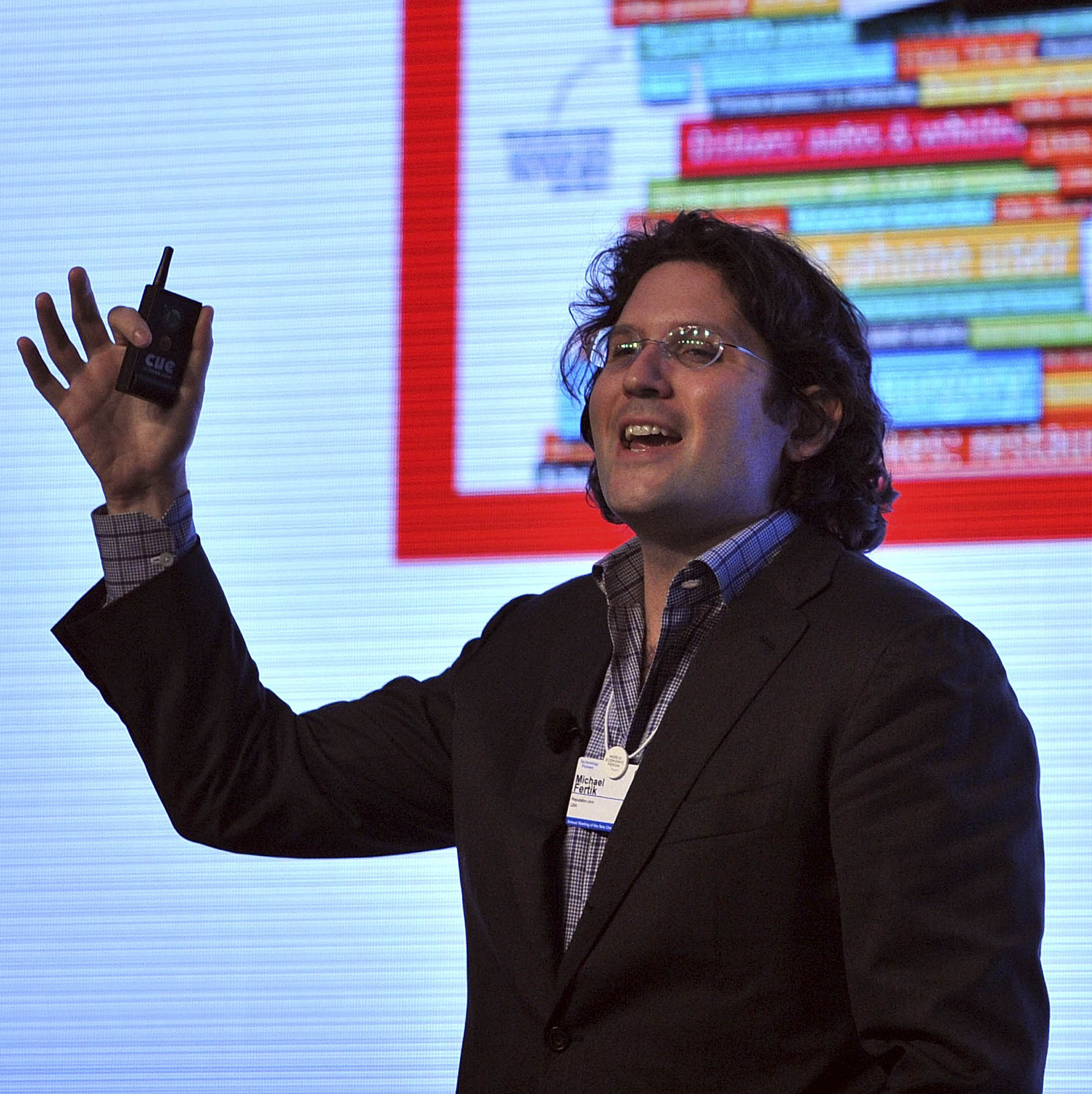 Michael Fertik, Founder and Chief Executive Officer, , USA; Technology Pioneer at the Annual Meeting of the New Champions in Tianjin, China 2012